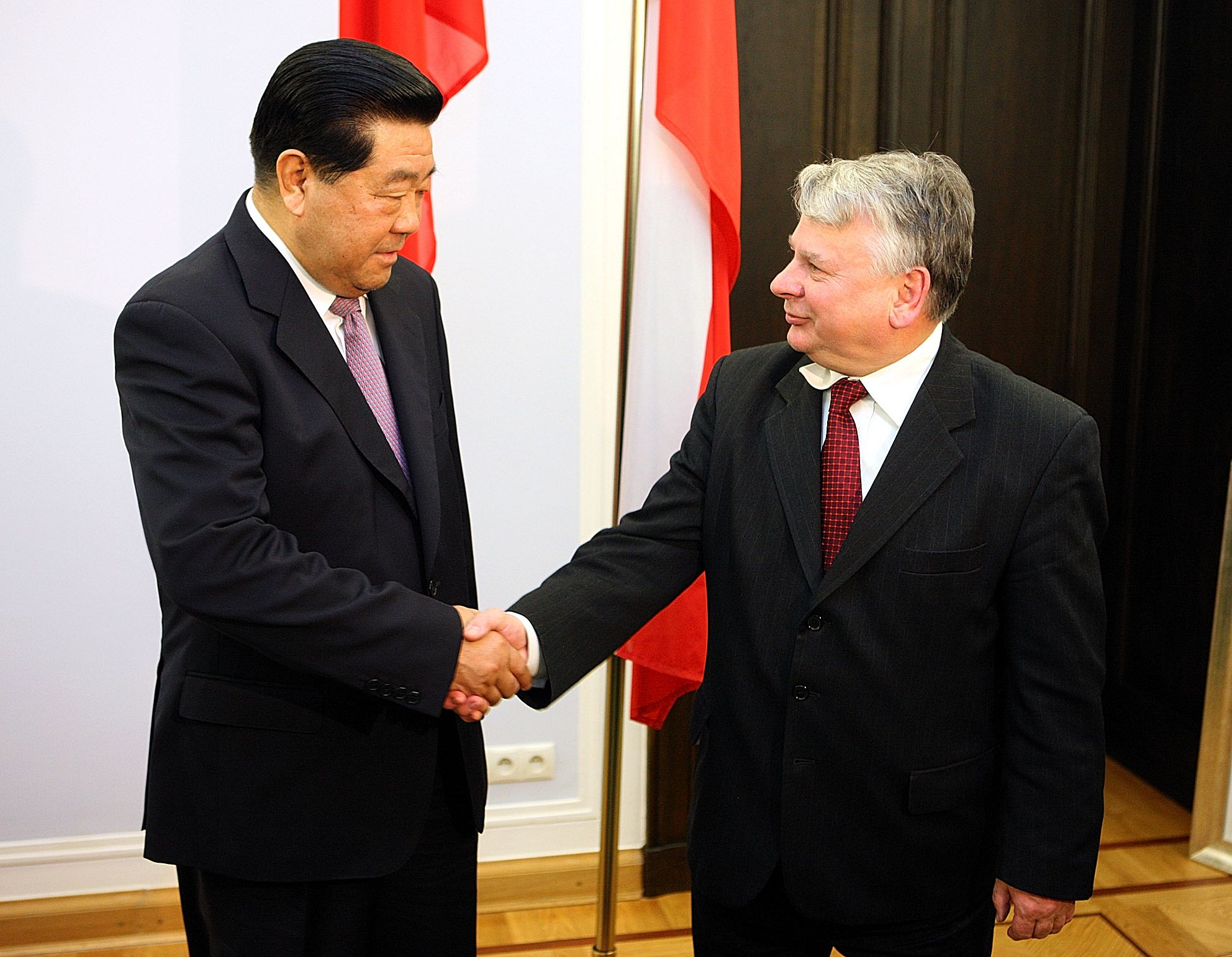 Chairman of Chinese People's Political Consultative Conference Jia Qinglin and Marshal Bogdan Borusewicz in the Polish Senate